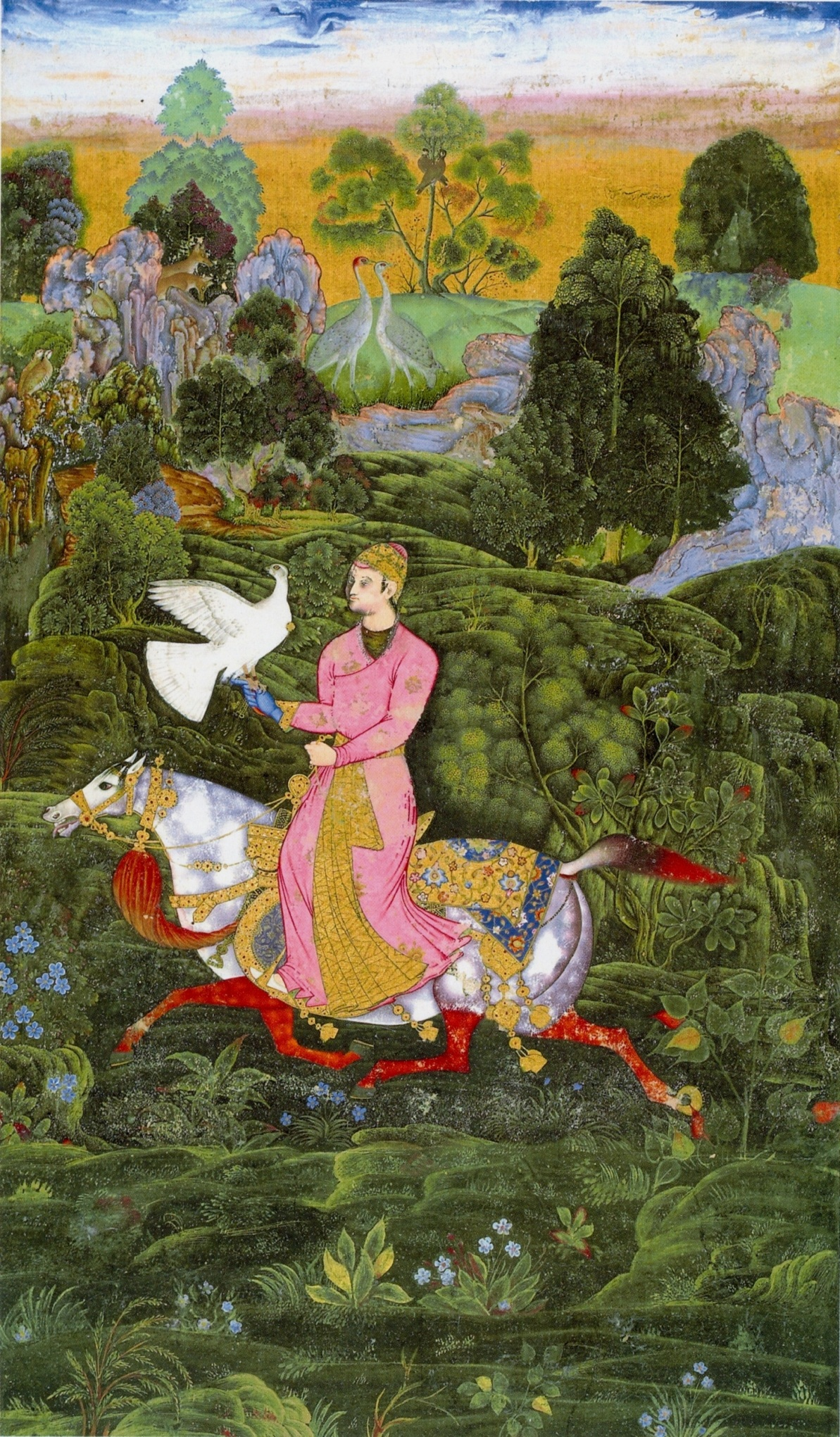 Farrukh Beg. Sultan Ibrahim Adil Shah II Khan hawking. Page from St. Petersburg Album. Bijapur ca.1590-95 (28,7x15,6cm) Institute of Oriental Studies St. Petersburg